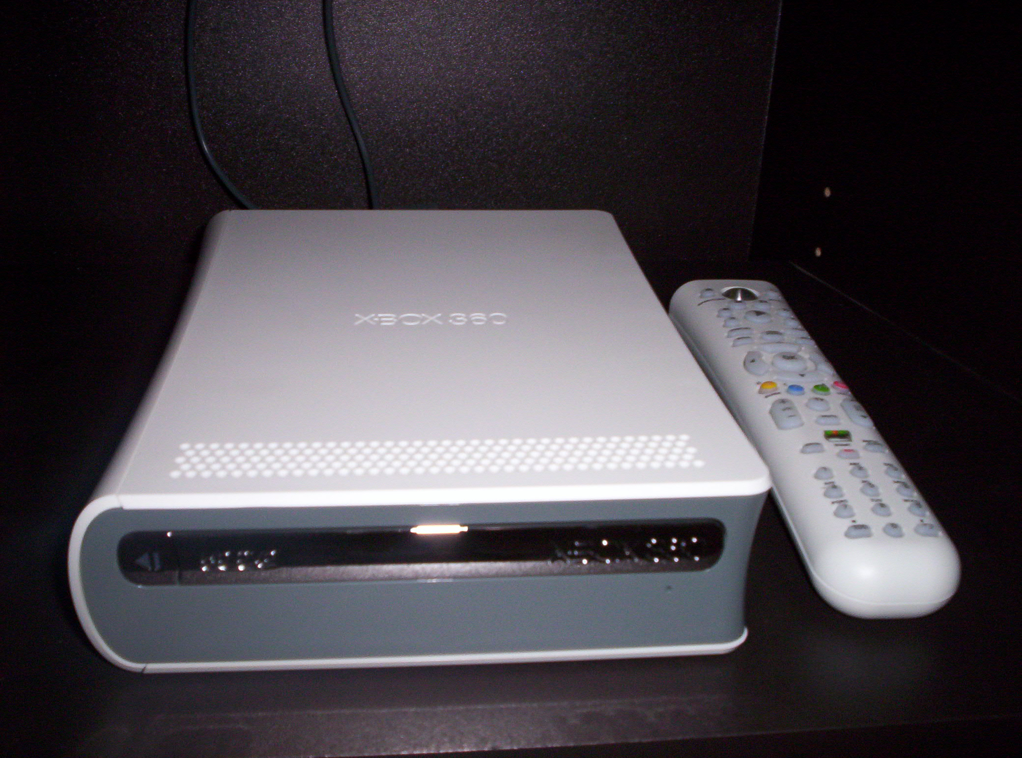 Xbox 360 HD-DVD drive add-on and Xbox 360 Universal Media Remote